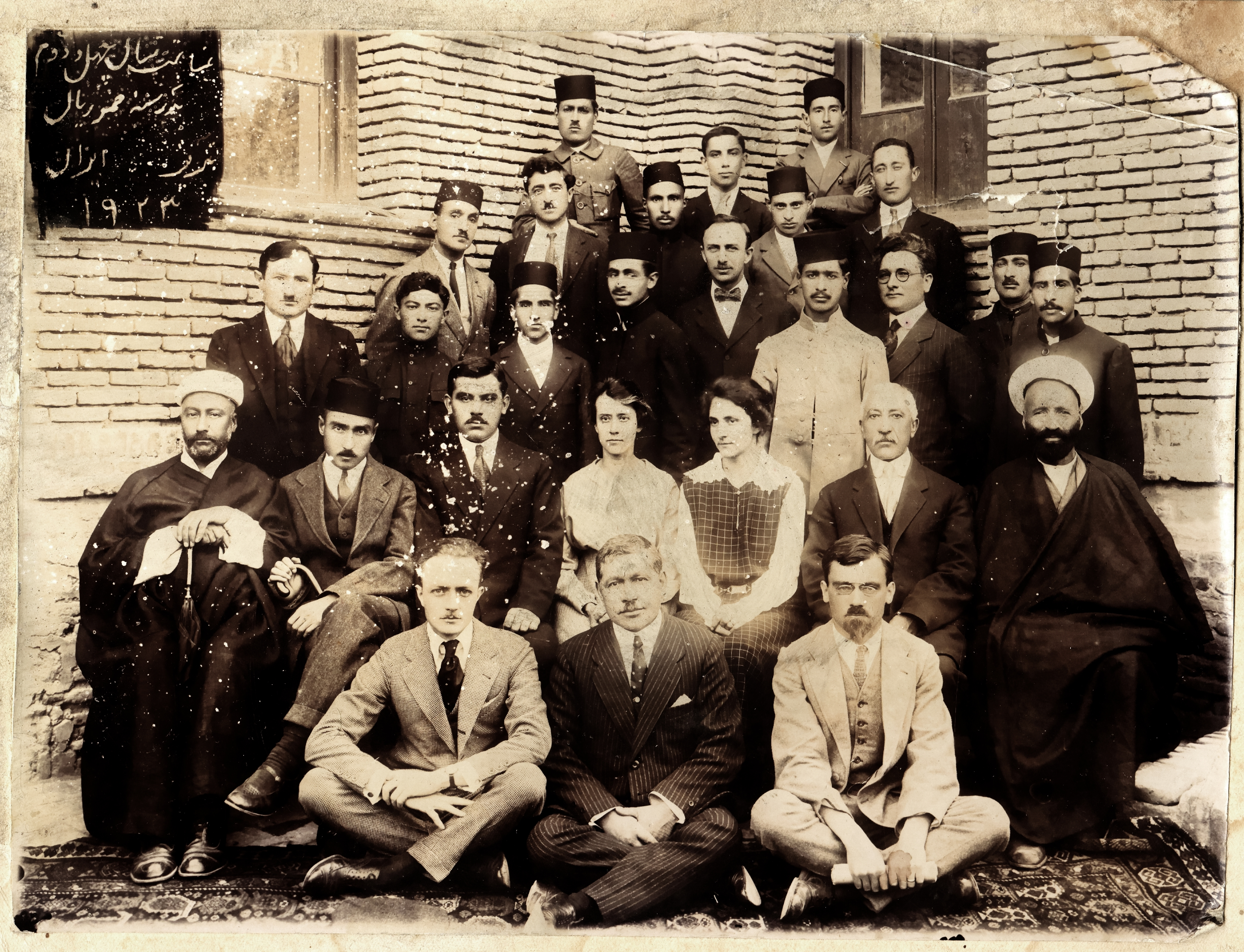 Tabriz Memorial High School 42nd Anniversary 1923. The sign at the upper left reads: "(unintelligible) forty second year Memorial School Tabriz, Iran 1923"